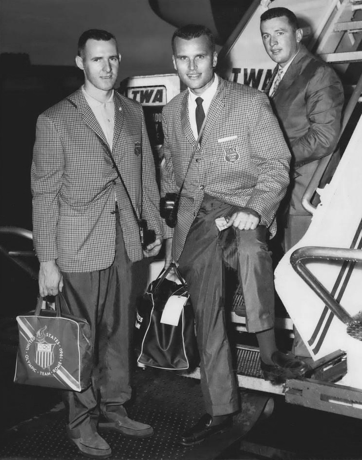 1960 Press Photo U.S. Olympic Sculling William Knecht,Jack Kelly Jr,trainer Js T